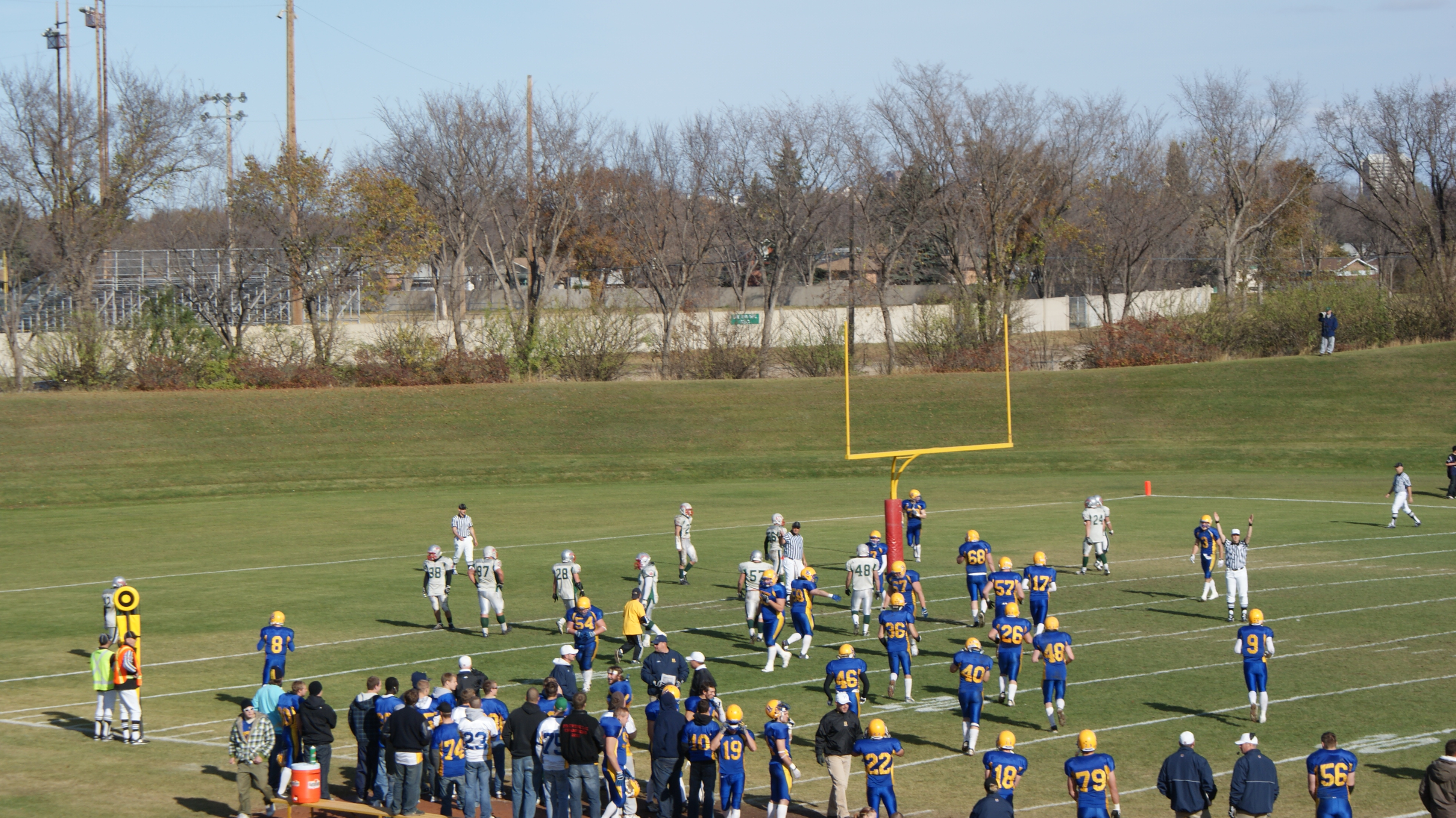 Touch down hilltops. Saskatoon Hilltops going for a touchdown. Saskatoon Hilltops, October 10, 2008 first playoff game vs Winnipeg Rifles in the Prairie Football Conference, a First down 10 yeards to go on the 33 yard line. Canadian Junior Football League team ending 35 to 28 in favour of the Hilltops....see Hilltop receiver rush into the hilltop sidelines with ball. Game played in the Gordie Howe Bowl Saskatoon. Hilltops yellow and gold, Rifles Silver and Green.